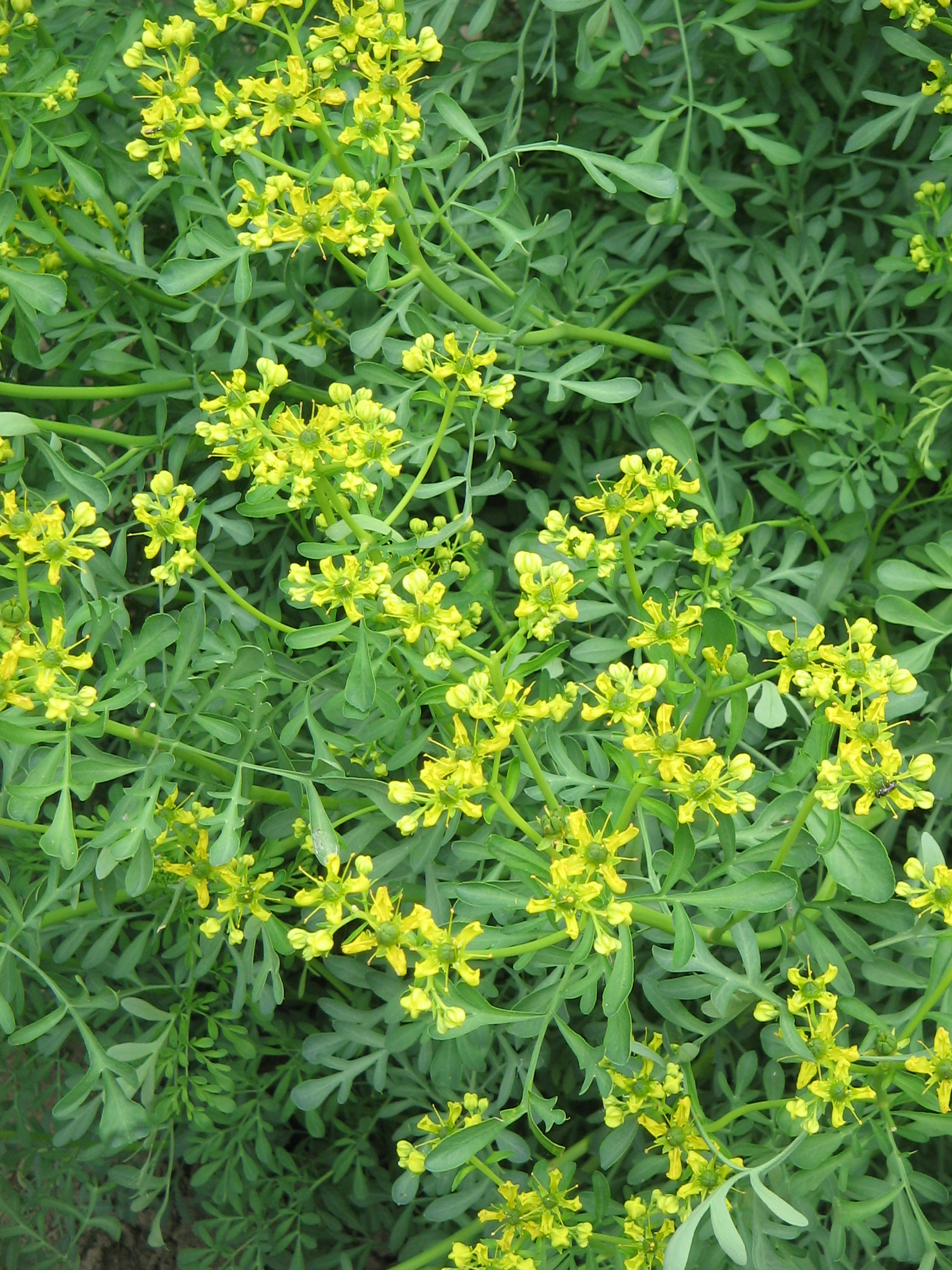 Ruta graveolens